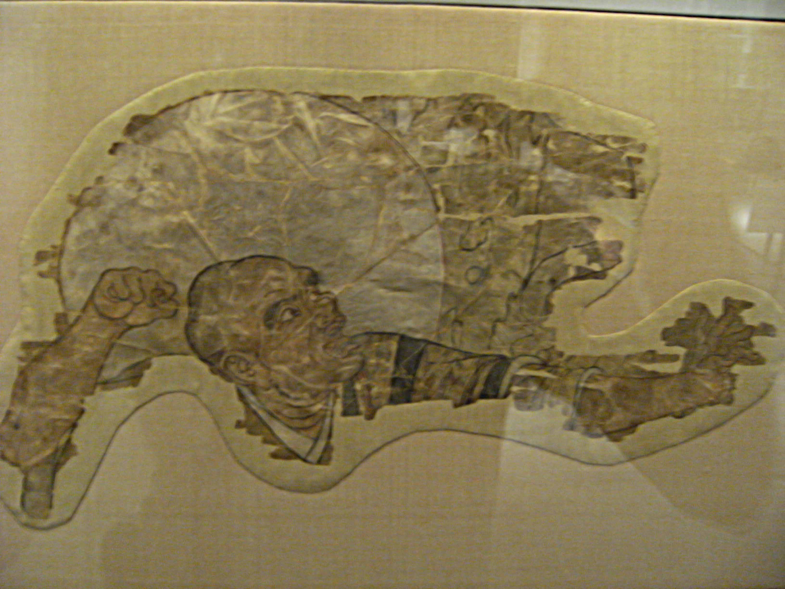 "Zorniger Arhat" collected by German expedition to Turkestan in the early 20th century. Painting on silk, from the foothills near Turfan. Dating from the 8/9th centuries CE. 29.0 x 47.5 cm Located in the Museum für Indische Kunst, Berlin-Dahlem. Item 367; III 7241